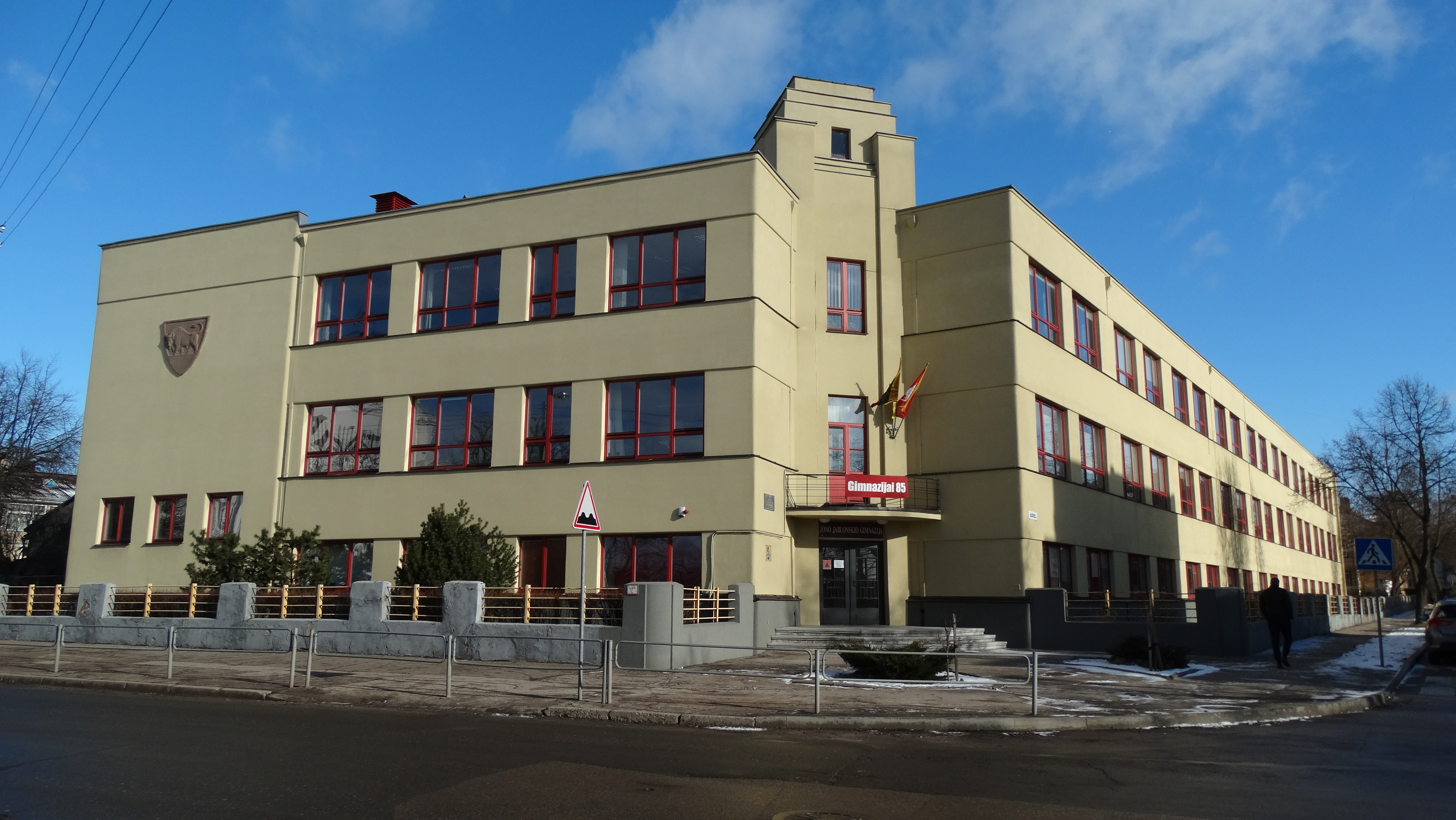 Jonas Jablonskis gymnasium, Kaunas, Lithuania